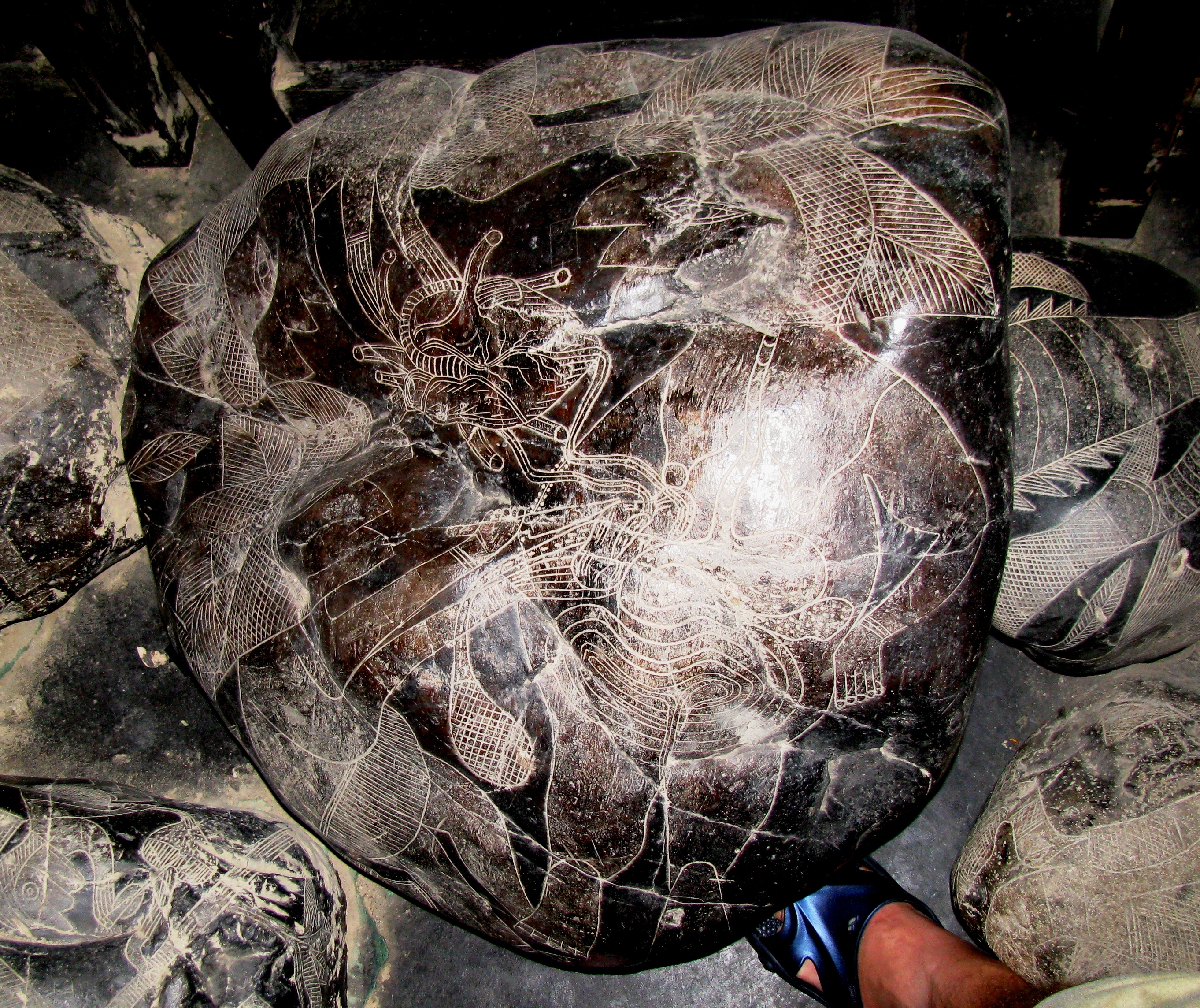 Ica stones